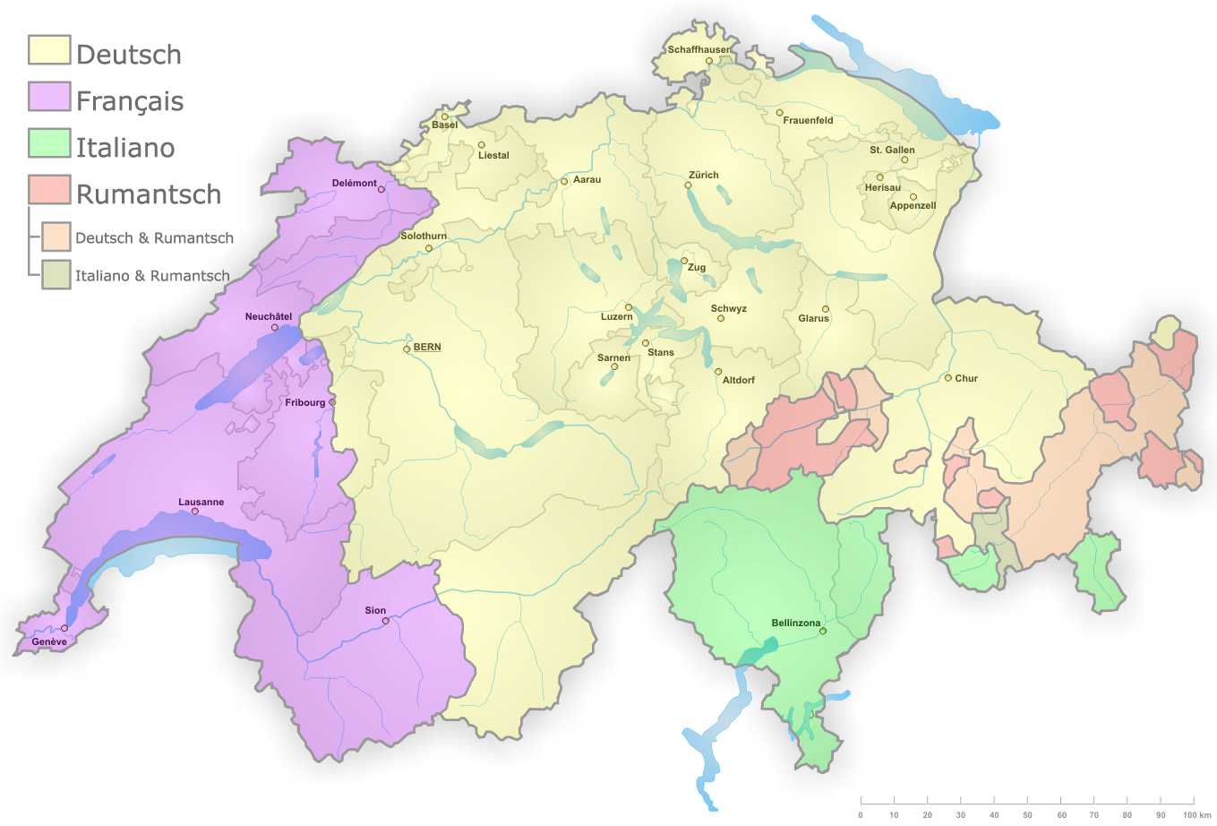 Linguistic map of Switzerland, by User:Kokiri. :"Map showing the Swiss German dialects; drawn myself. : :All German dialects are in yellow, red refers to the Rhaetoromansh language group, green to Italian dialects and purple to French dialects. Only the main Swiss German dialects are differentiated. Further explanation in the article."